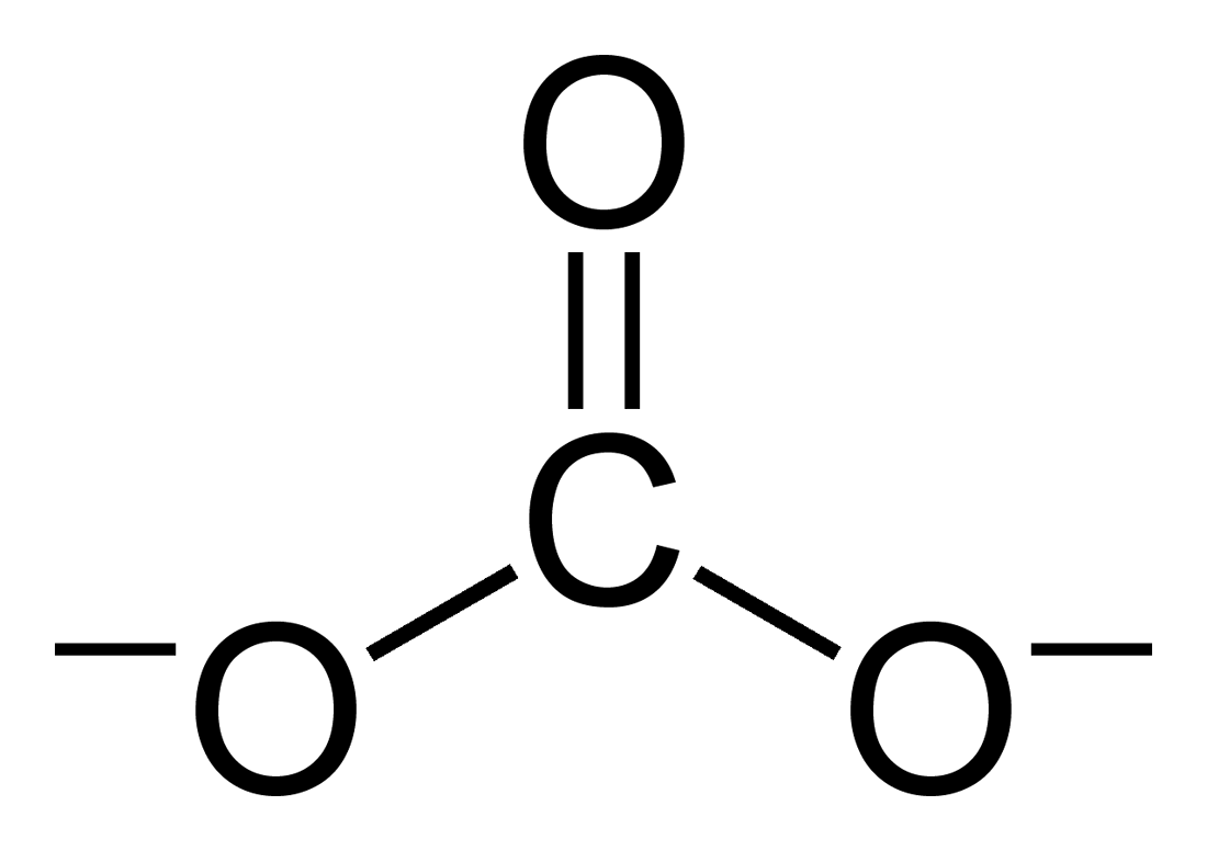 Structural formula of the carbonate ion, CO32−.